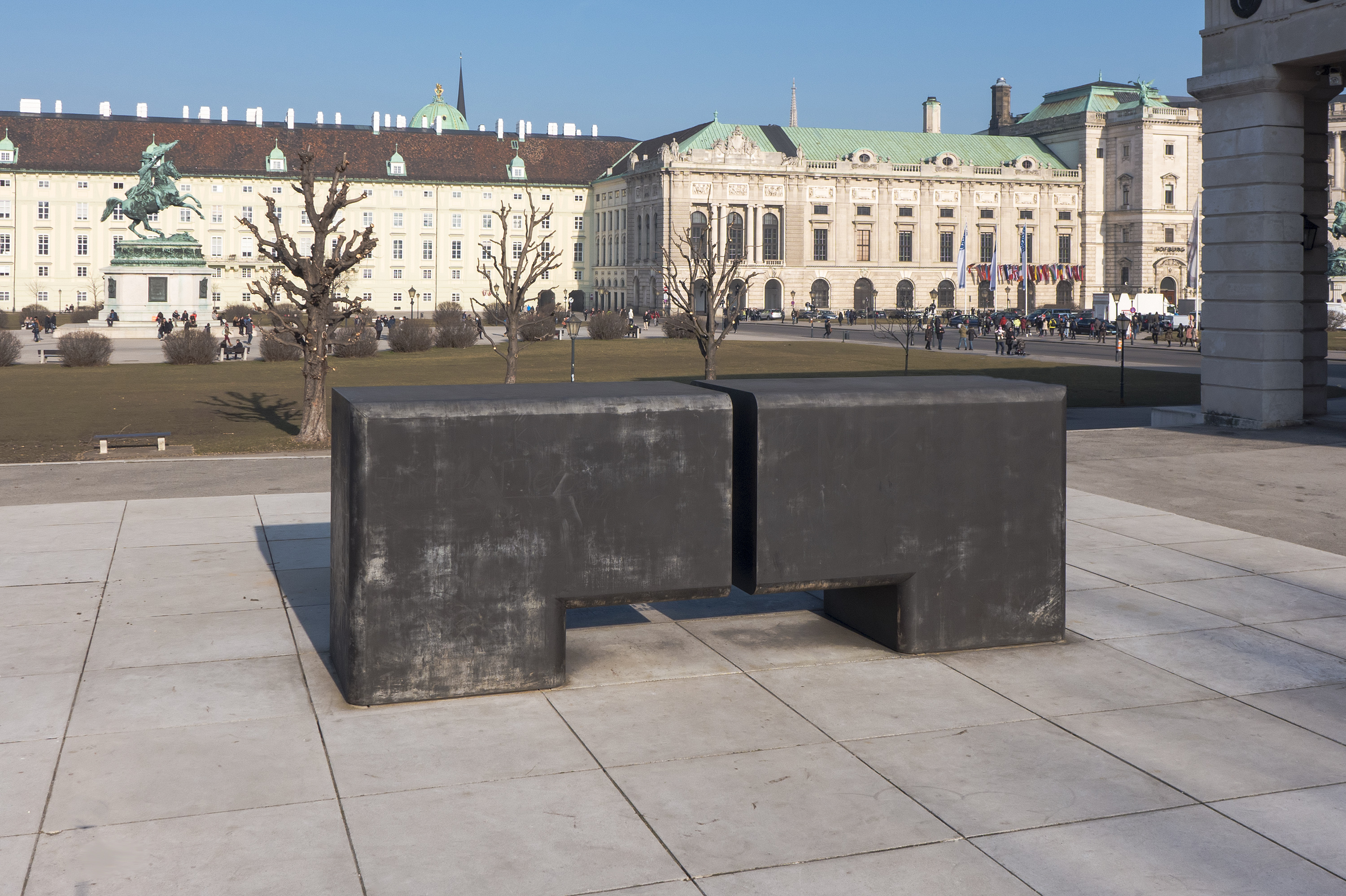 Monument Denkmal der Exekutive in Vienna 1